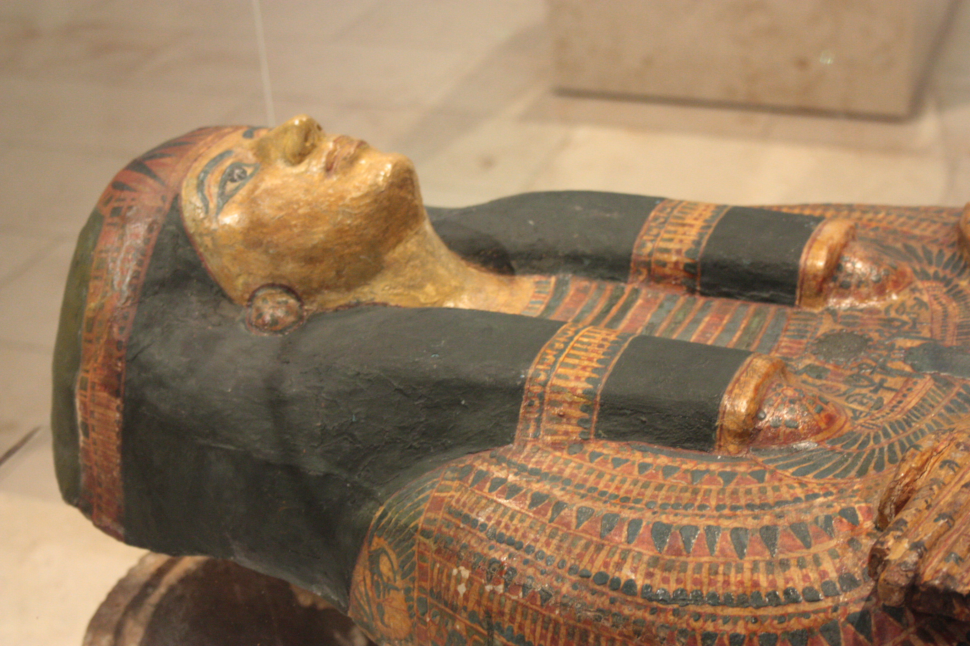 The coffin lid of Iufenamun, Egyptian high priest, presented by Colin Scott-Moncrieff to the Royal Scottish Museum